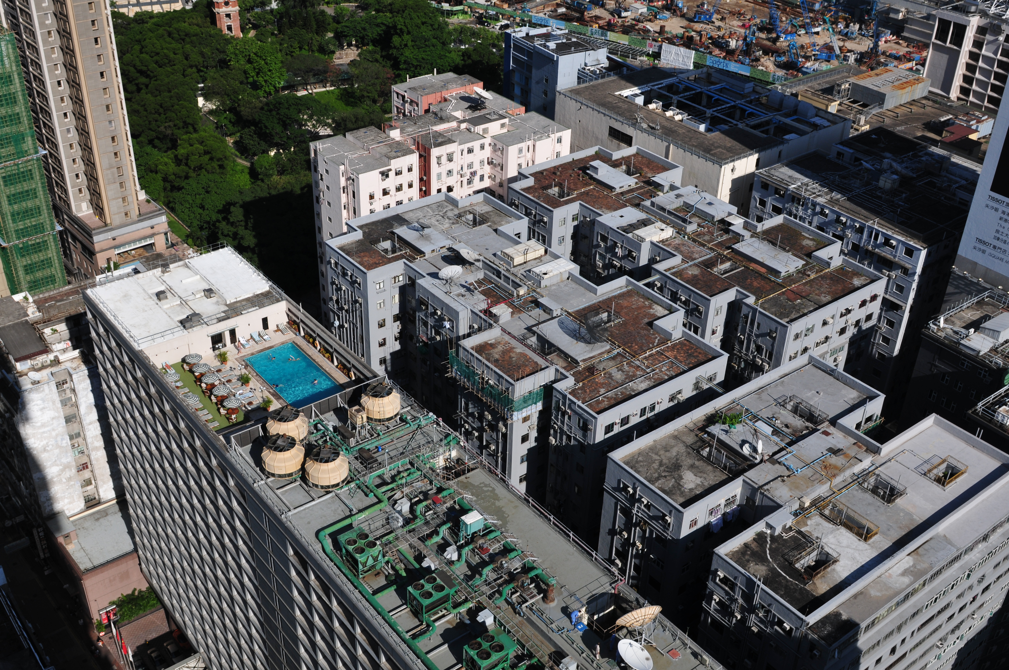 Chungking Mansions, Hong Kong